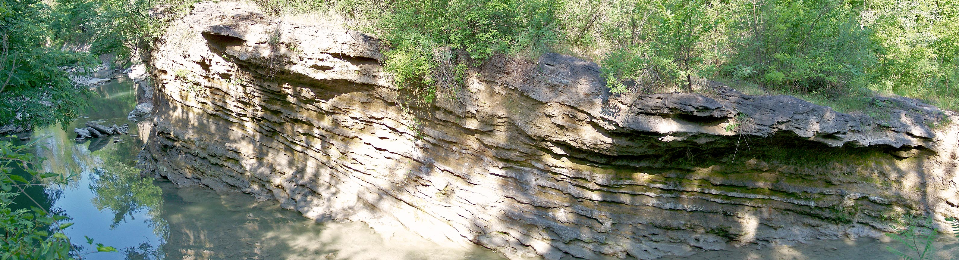 Rock layers with fossils by Stirone river (Salsomaggiore Terme, Parma, Italy)